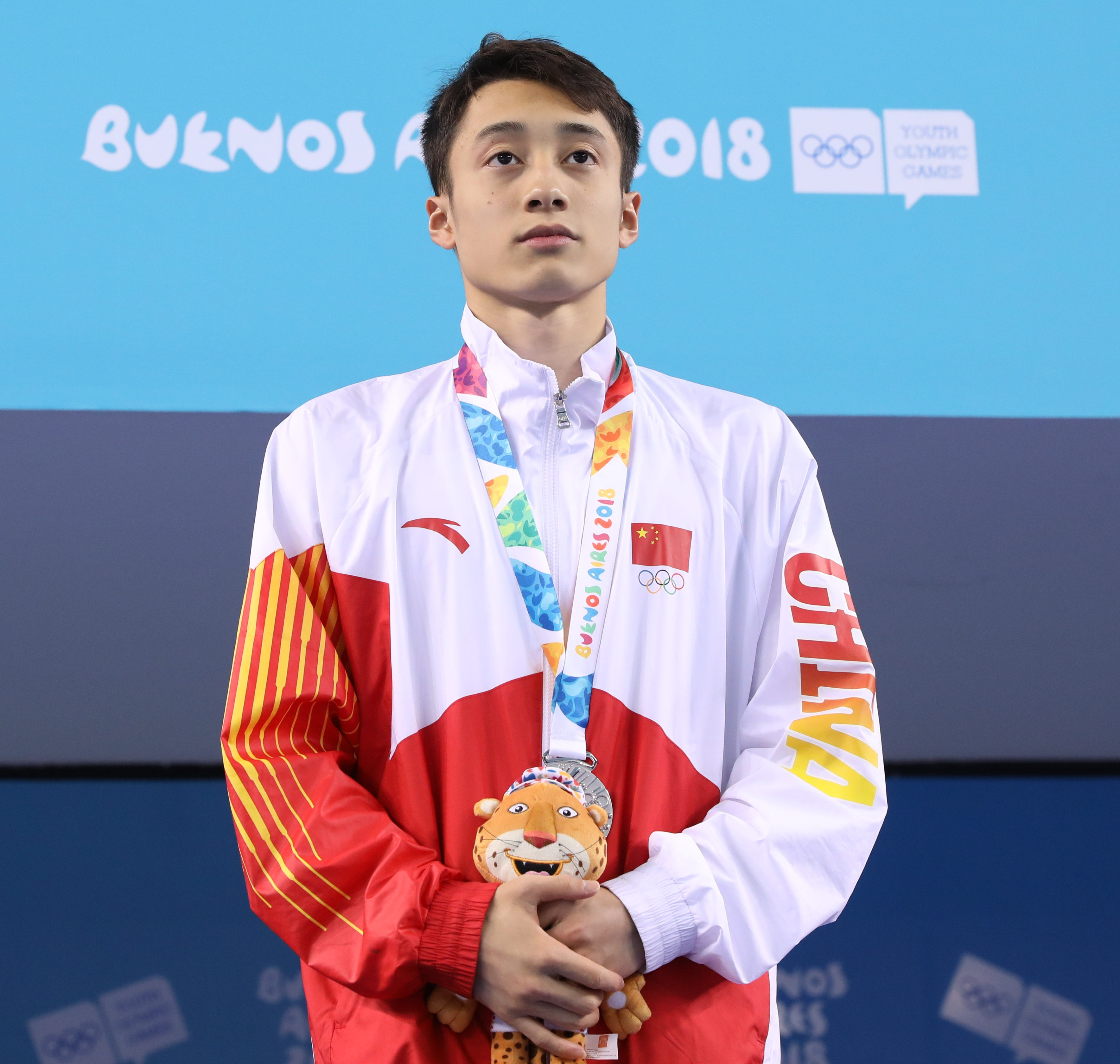 Boys' Diving, 10 m platform, Final: Victory ceremony